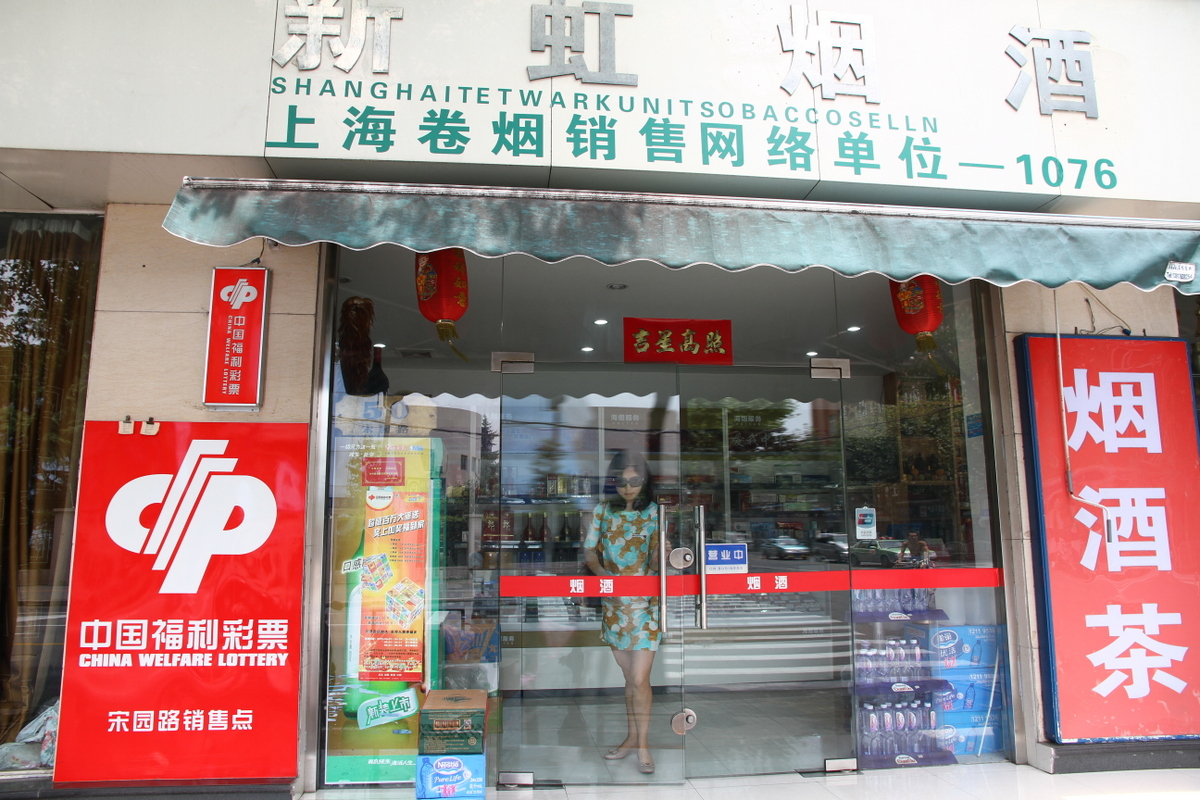 China Welfare Lottery sign outside a convenience store in Shanghai